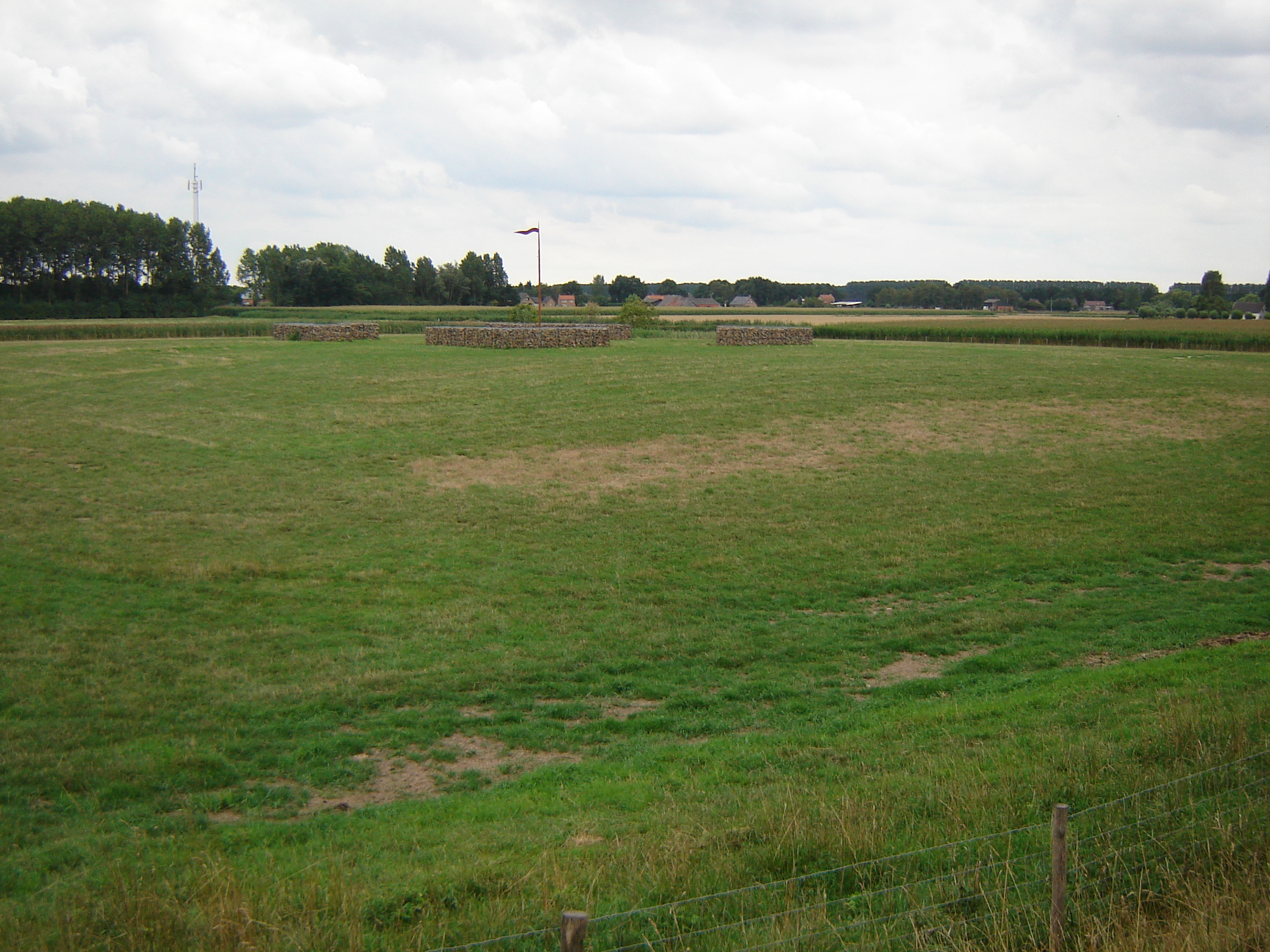 Fort Sint-Livinus in Koewacht. Koewacht, Terneuzen, Zeeland, Netherlands.